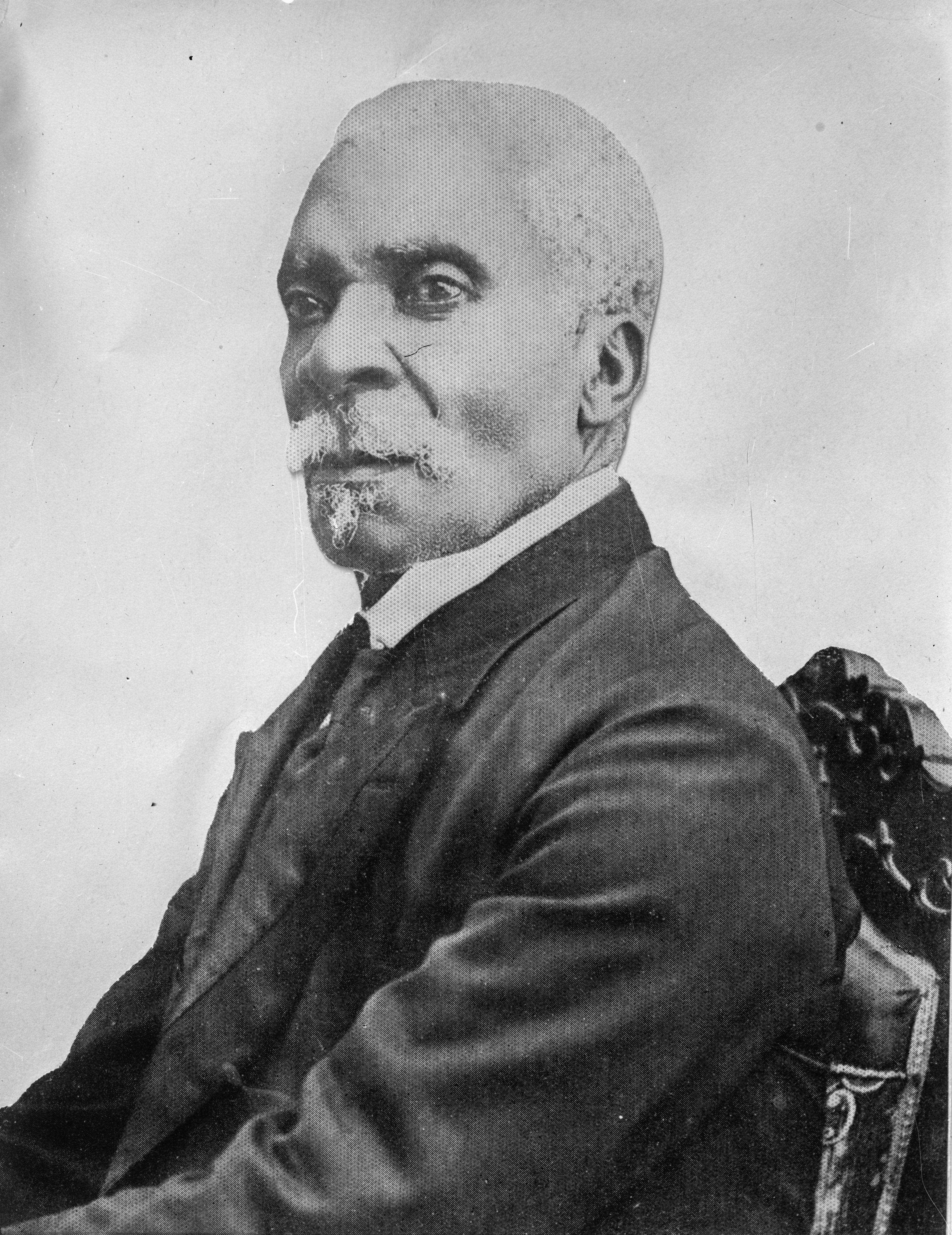 TITLE: General François Antoine Simon, President of Haiti CALL NUMBER: LC-B2- 1165-4[P&P] REPRODUCTION NUMBER: LC-DIG-ggbain-05936 (digital file from original neg.) No known restrictions on publication. MEDIUM: 1 negative : glass ; 5 x 7 in. or smaller. CREATED/PUBLISHED: [no date recorded on caption card] CREATOR: Bain News Service, publisher. NOTES: Forms part of: George Grantham Bain Collection (Library of Congress). Title from unverified data provided by the Bain News Service on the negatives or caption cards. General information about the Bain Collection is available at REPOSITORY: Library of Congress Prints and Photographs Division Washington, D.C. 20540 USA DIGITAL ID: (digital file from original neg.) ggbain 05936 CARD #: ggb2004005936